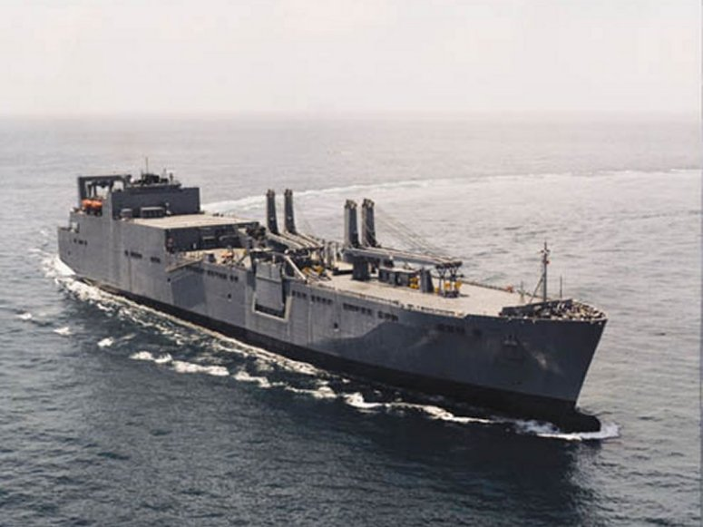 USNS Watson (T-AKR-310) underway, date and location unknown. US Navy photo.